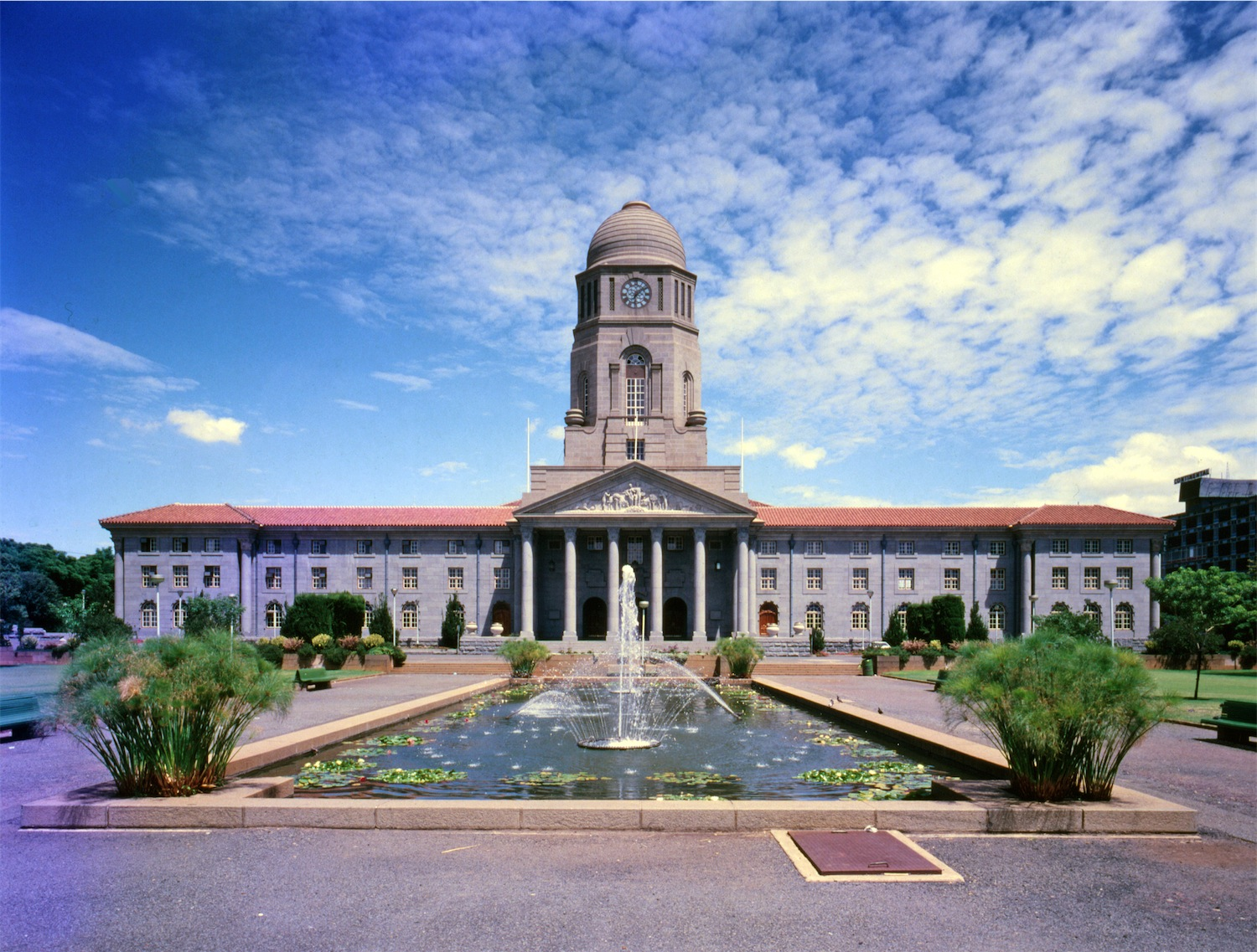 This media shows a South African Protected Site with SAHRA file reference 0000000000.